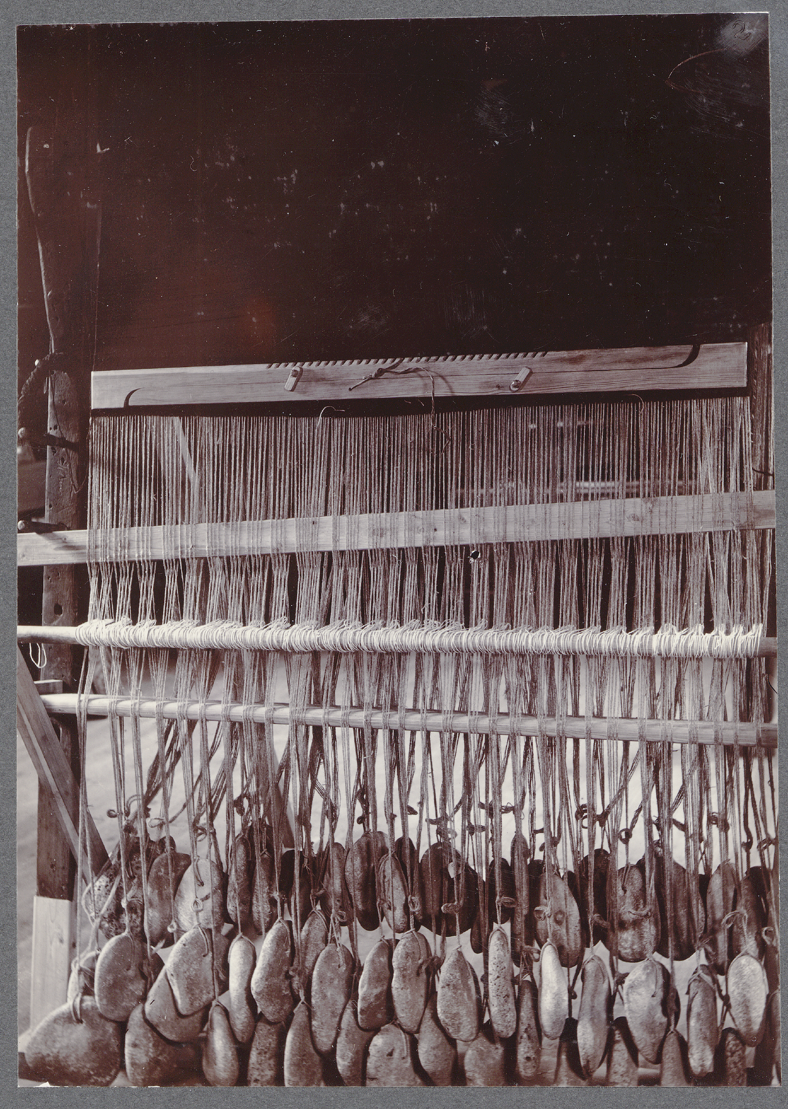 Collection: Icelandic and Faroese Photographs of Frederick W.W. Howell, Cornell University Library Title: Old loom. Nat[ional] Museum, Reykjavík. Date: ca. 1900 Place: Þjóðminjasafn Íslands Medium: collodion print Repository: Fiske Icelandic Collection, Rare & Manuscript Collections, Cornell University Library Accession: 1923.1.30 URL: Persistent URI: There are no known U.S. copyright restrictions on this image. The digital file is owned by the Cornell Univeristy Library which is making it freely available with the request that, when possible, the Library be credited as its source. We had some help with the geocoding from Web Services by Yahoo!